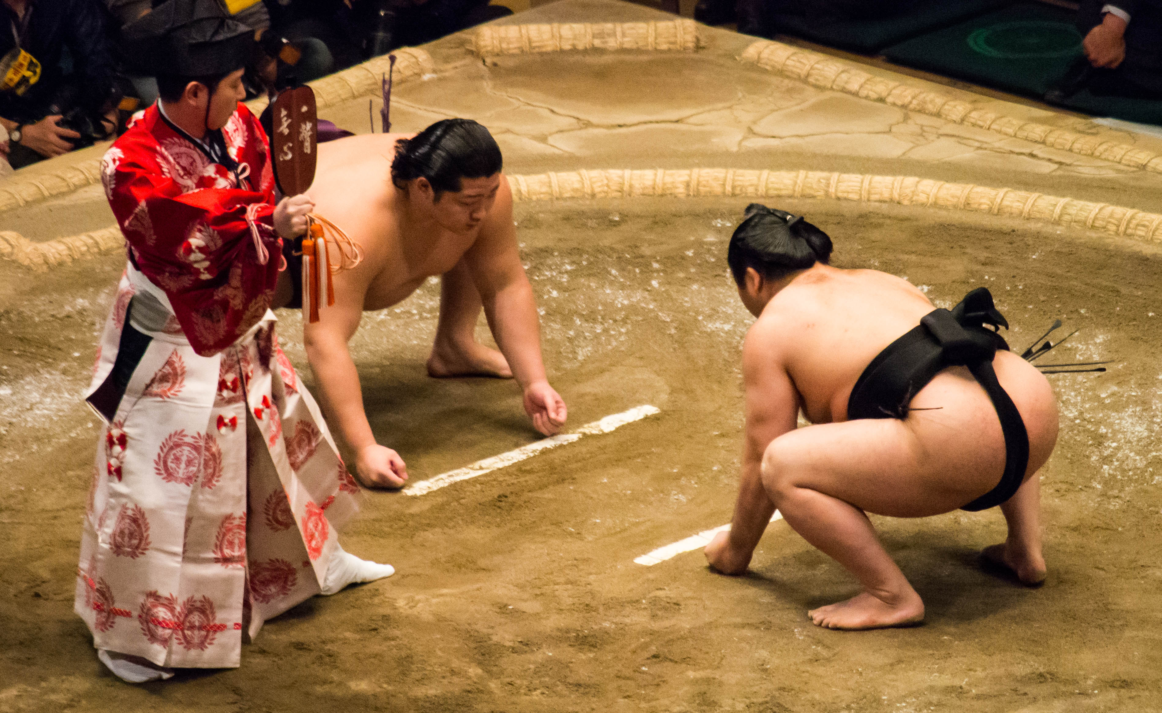 Satoyama (black) vs. Endō at the 2014 January Grand Sumo Tournament in Tokyo.